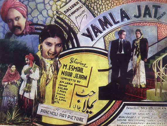 Yamla Jatt is a pre-partition Punjabi film directed by Moti B. Gidwani, starring M. Ismail, Noor Jehan and Pran.